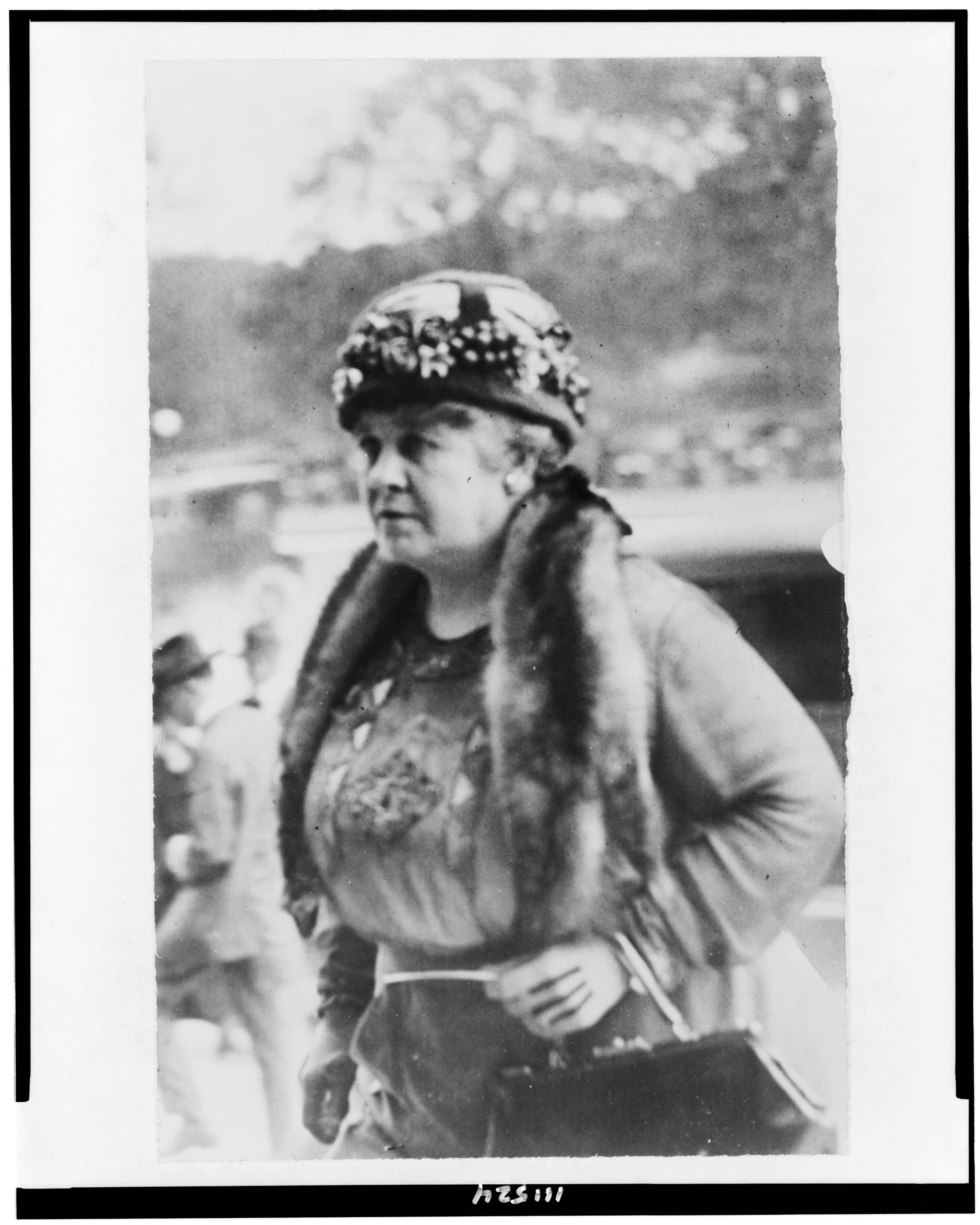 Title: Mrs. Conboy, half-length portrait, walking, facing left Abstract/medium: 1 photographic print.